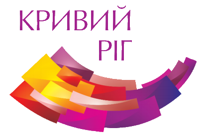 kryvyi Rih Logotype